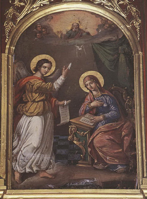 Annunciation